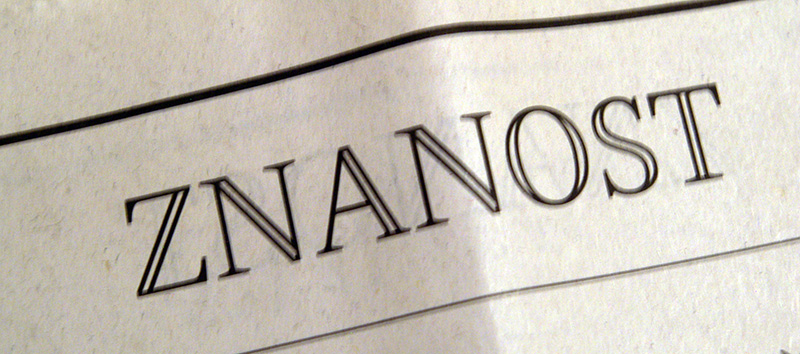 Image provided to illustrate typography of known Slovenian newspaper Delo.